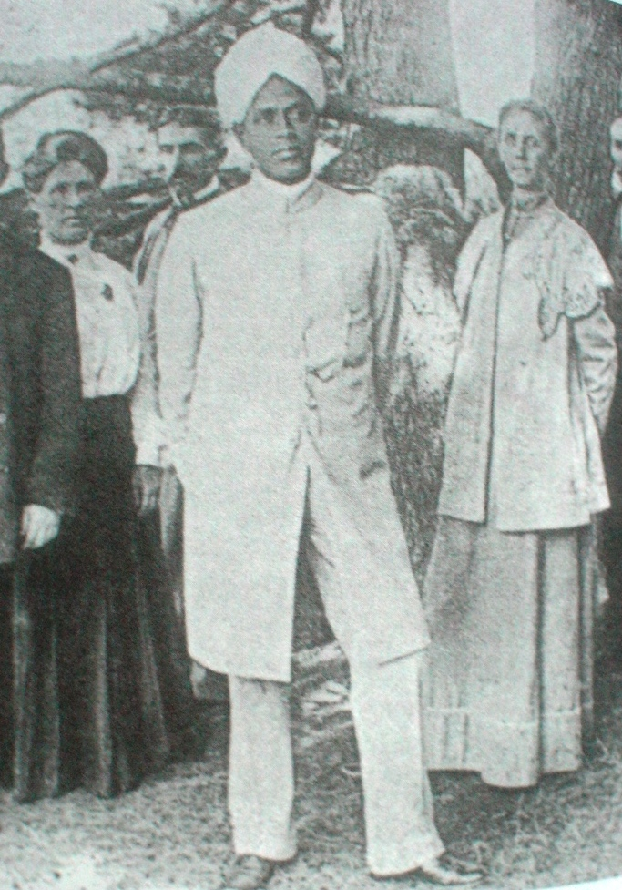 Sir Ponnambalam Ramanathan සිංහල: සර් පොන්නම්බලම් ‍රාමනාදන්